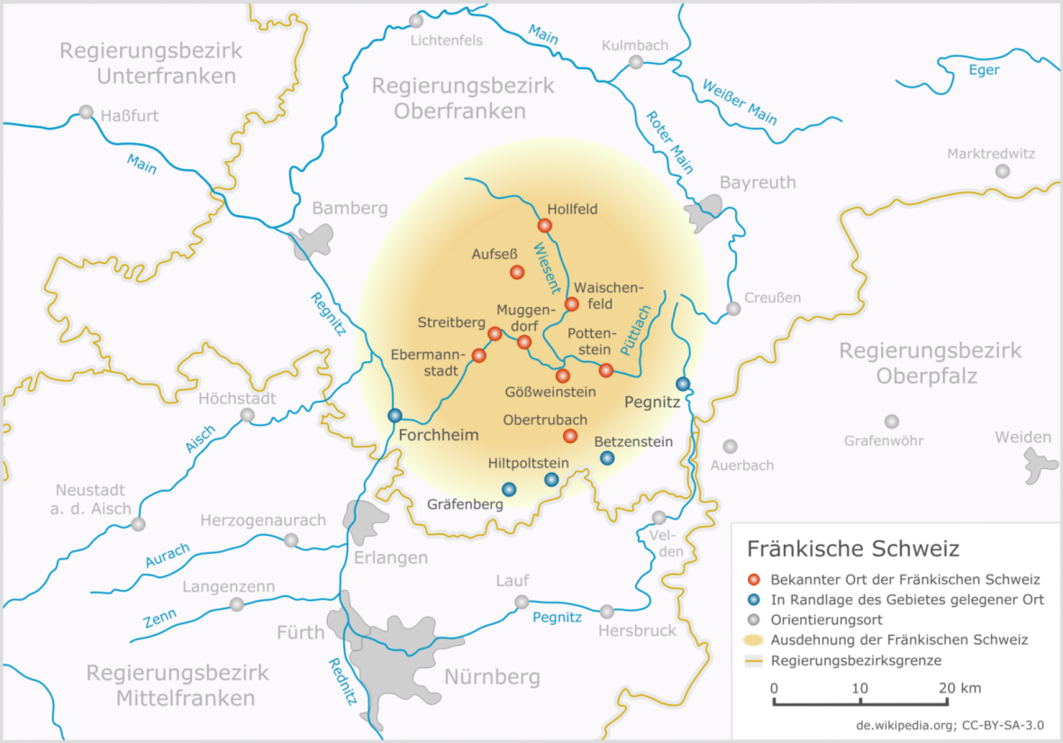 Map of the Franconian Switzerland